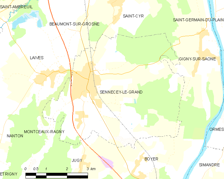 Map of French municipality